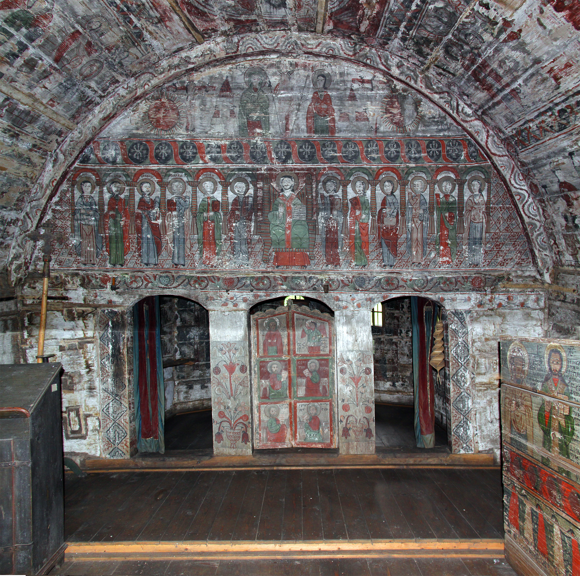 Petrindu, Sălaj: wooden church in The Ethnographic Museum in Cluj Napoca, Romania. Iconostasis.